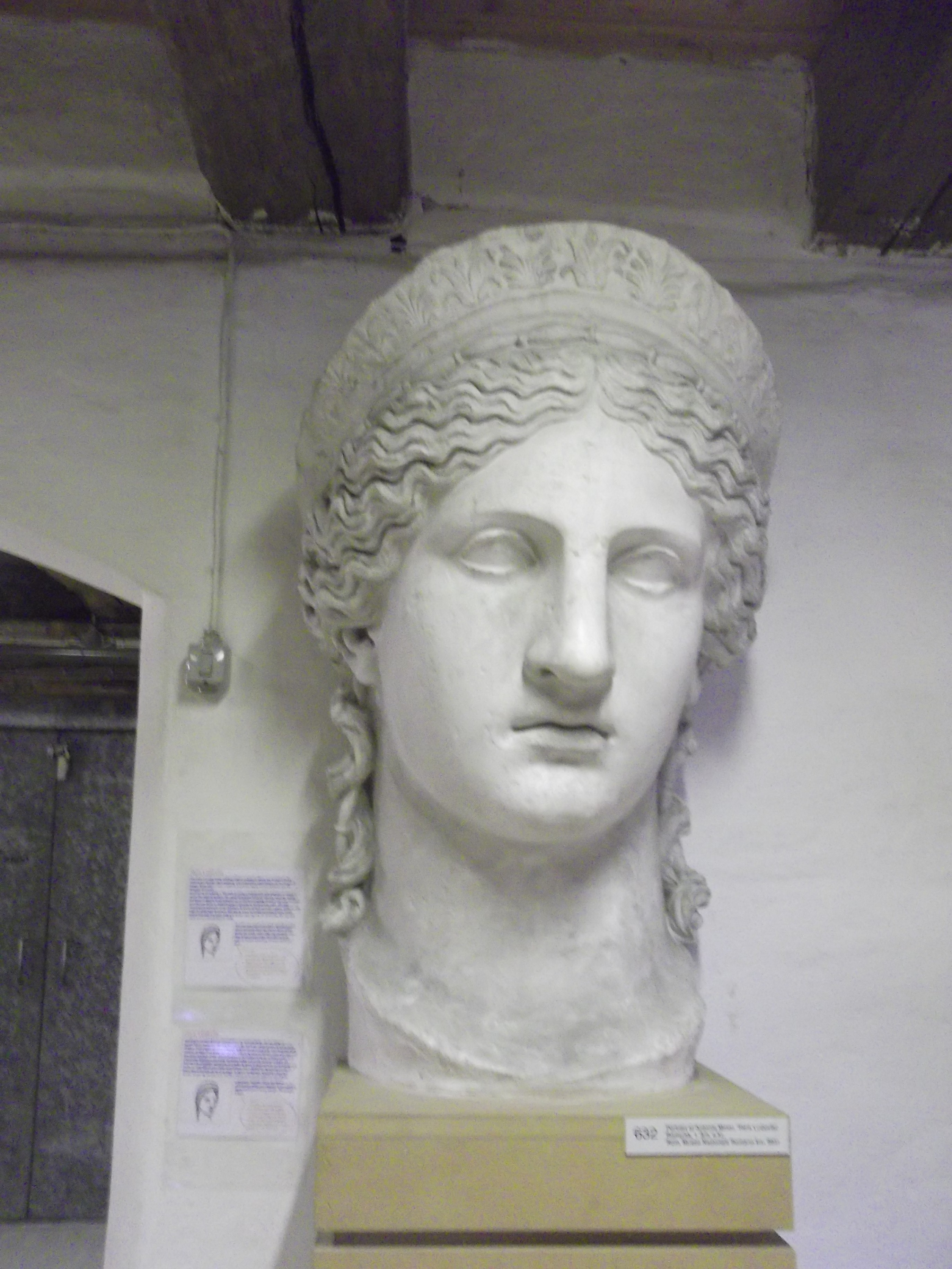 Plaster cast of item in other museum